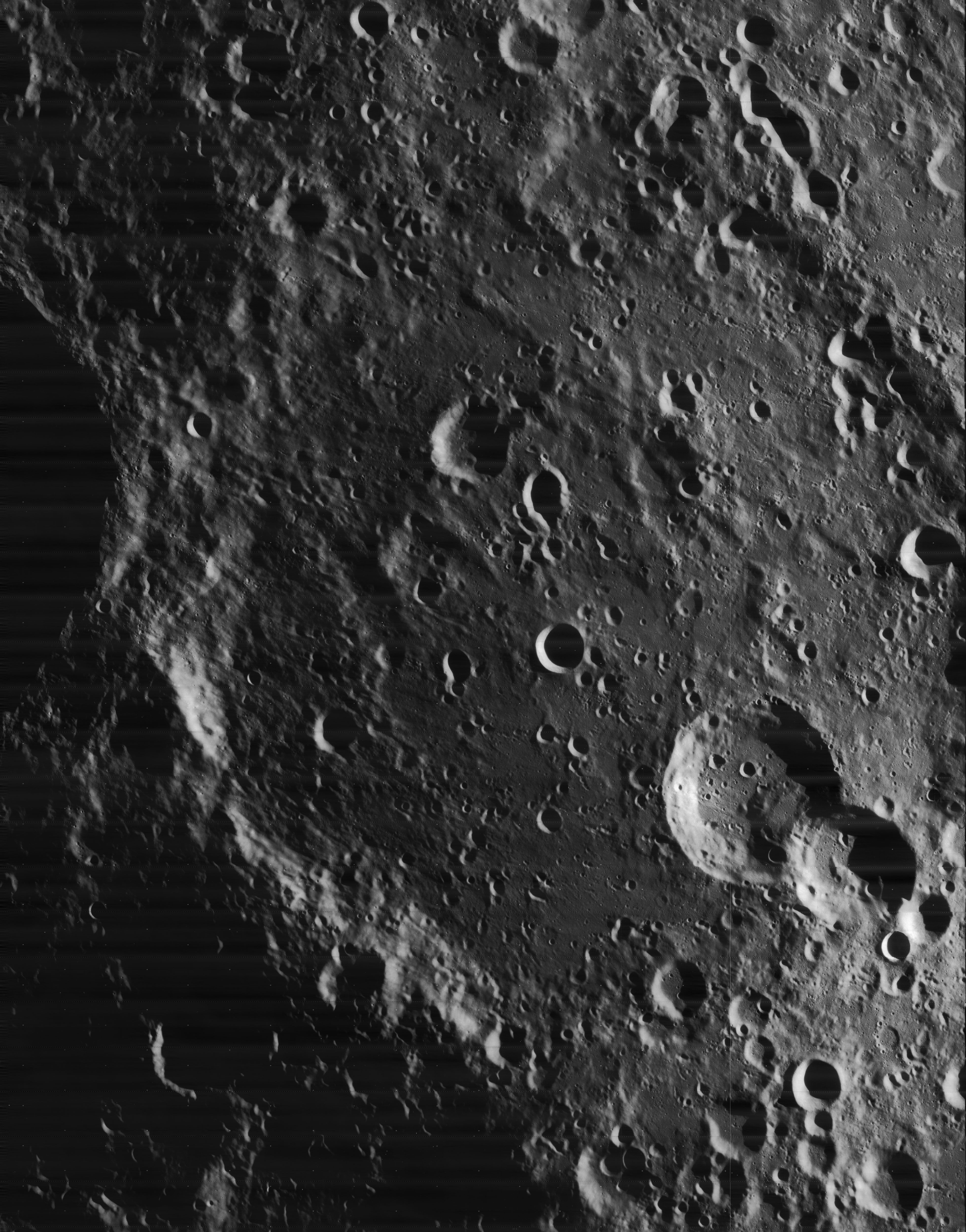 Slightly oblique view of most of Bailly, on the moon.